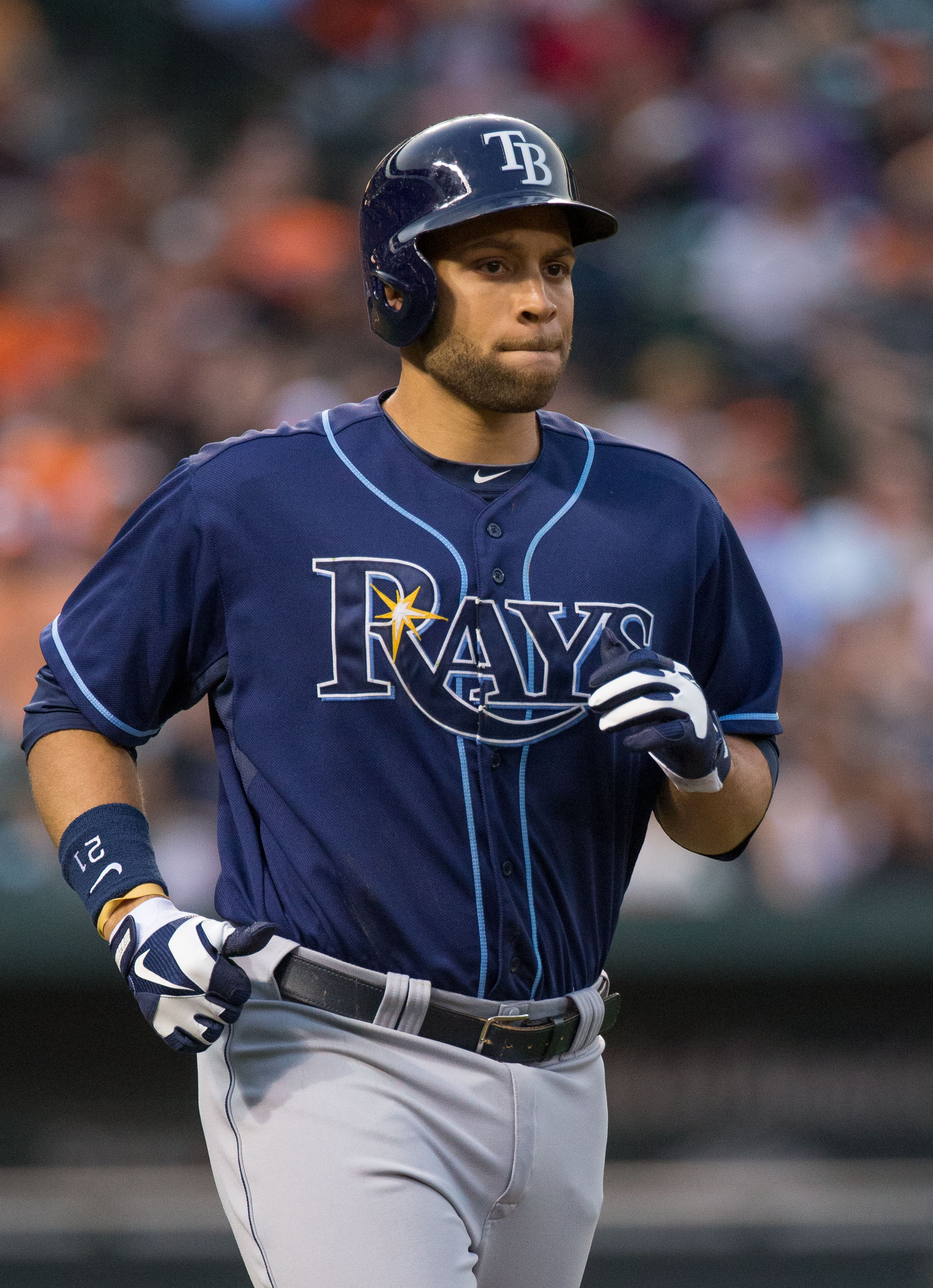 Tampa Bay Rays 1st Baseman James Loney – Tampa Bay Rays at Baltimore Orioles April 17, 2013